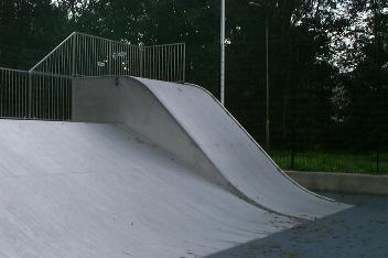 Photograph of a little ramp in a skateboard park.